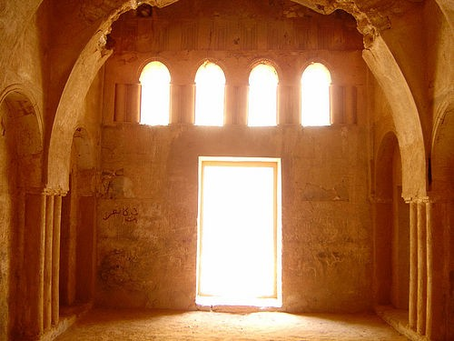 The interior Kharana (Harana) Umayyad palace in Jordan.